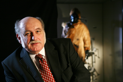 Prof. Dr. Karl-Heinz Umbach